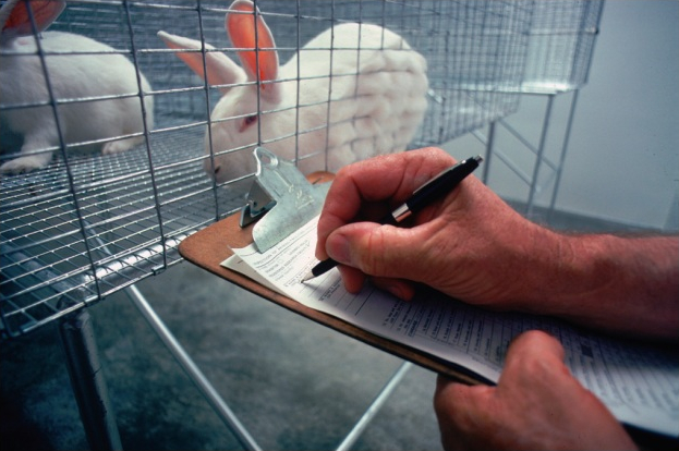 Humane care and treatment of research animals are important aspects of the Animal Welfare Act (AWA).